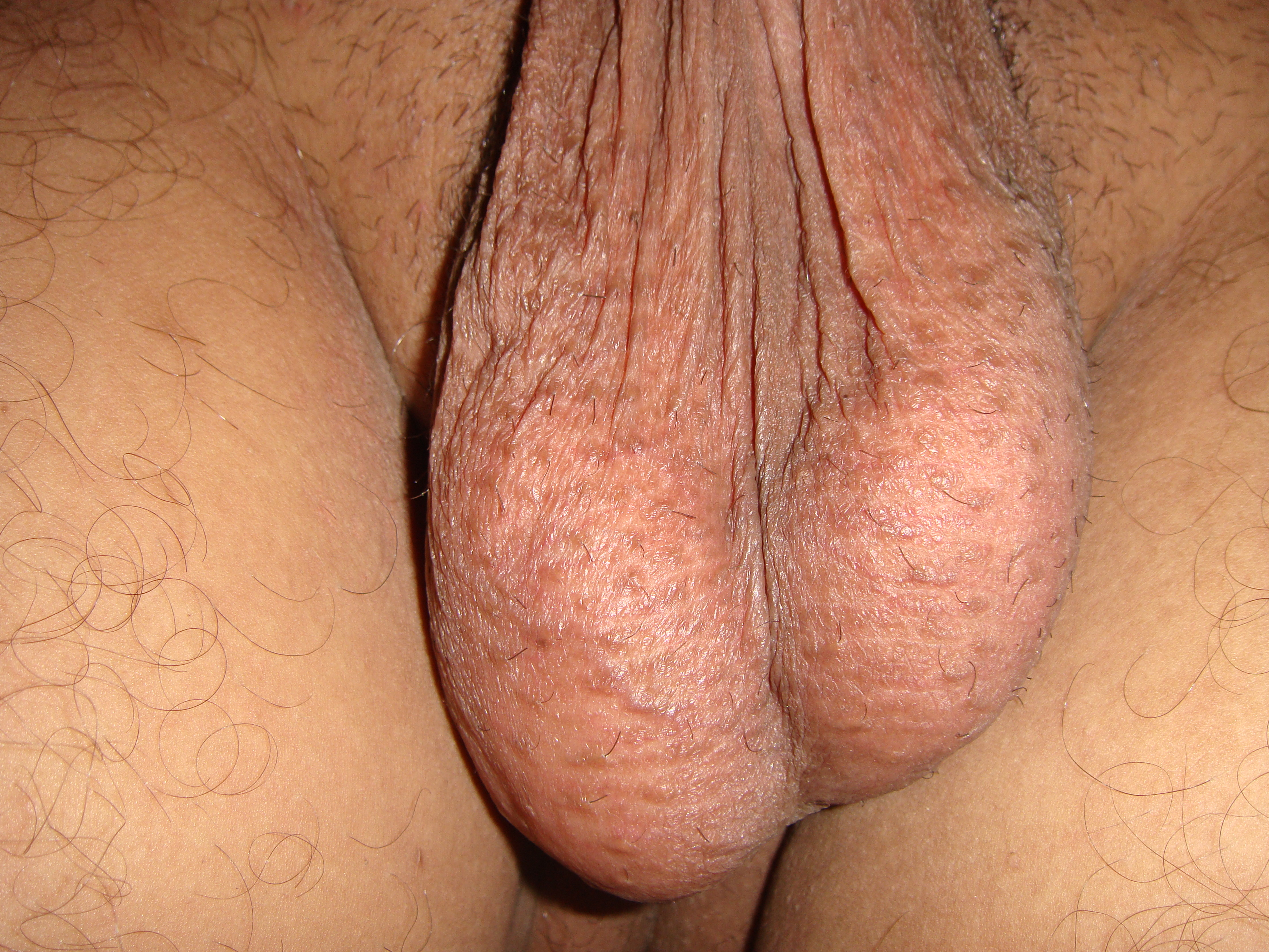 Image of normal human testicles, outside from Scrotal sac. The two testicles are seen hanging on Cremaster muscle which is the part of a major pelvic muscle. Scrotum provides an external protection to the testicle which is just a fleshy mass. Notice the size which shows that these developed and are functional. These produce enough amount of sperm which forms the active part of semen.